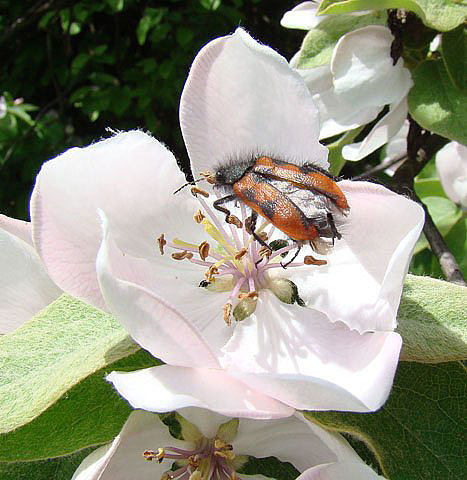 A pollen seeking beetle in Central Chile, known as Pololo (boyfriend) as it often lands on women's bright clothing. In context at